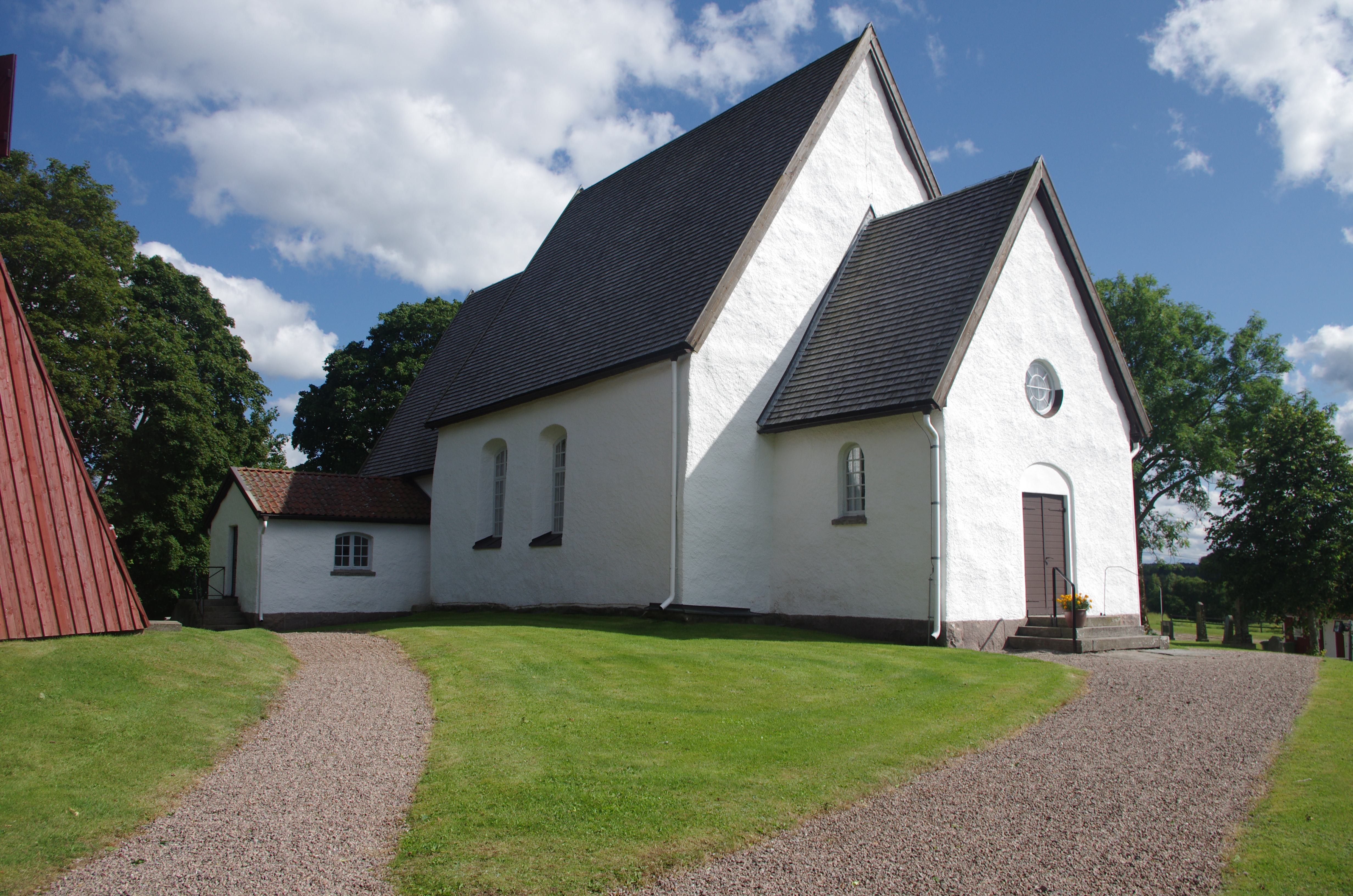 Knätte church in Ulricehamn muicipality in Västergötland and Västra Götaland county, Sweden.